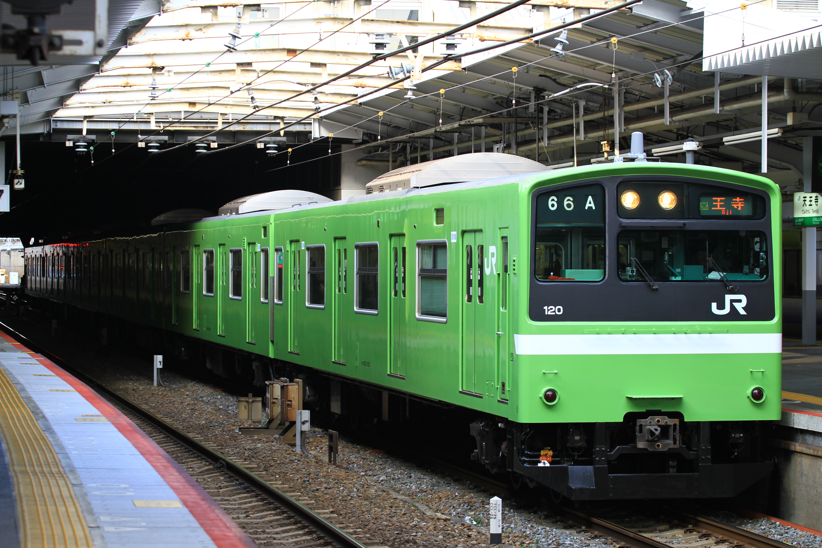 JR West 201 series EMU set 120 at Tennoji Station in Osaka, Japan